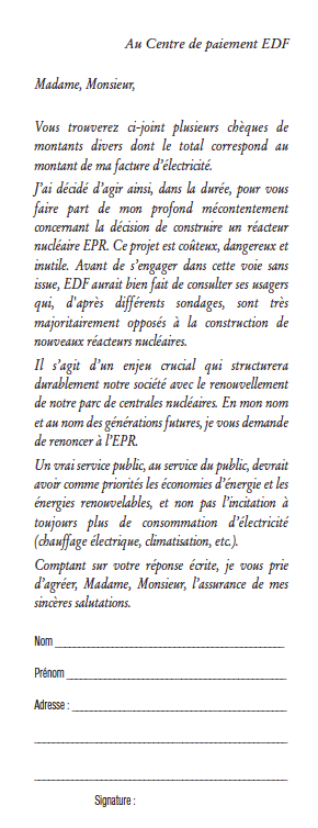 carte postale prédécoupée du réseau "Sortir du Nucléaire" expliquant les raisons pour lesquels il propose de payer sa facture EDF au moyen de plusieurs chèques de montants différents.